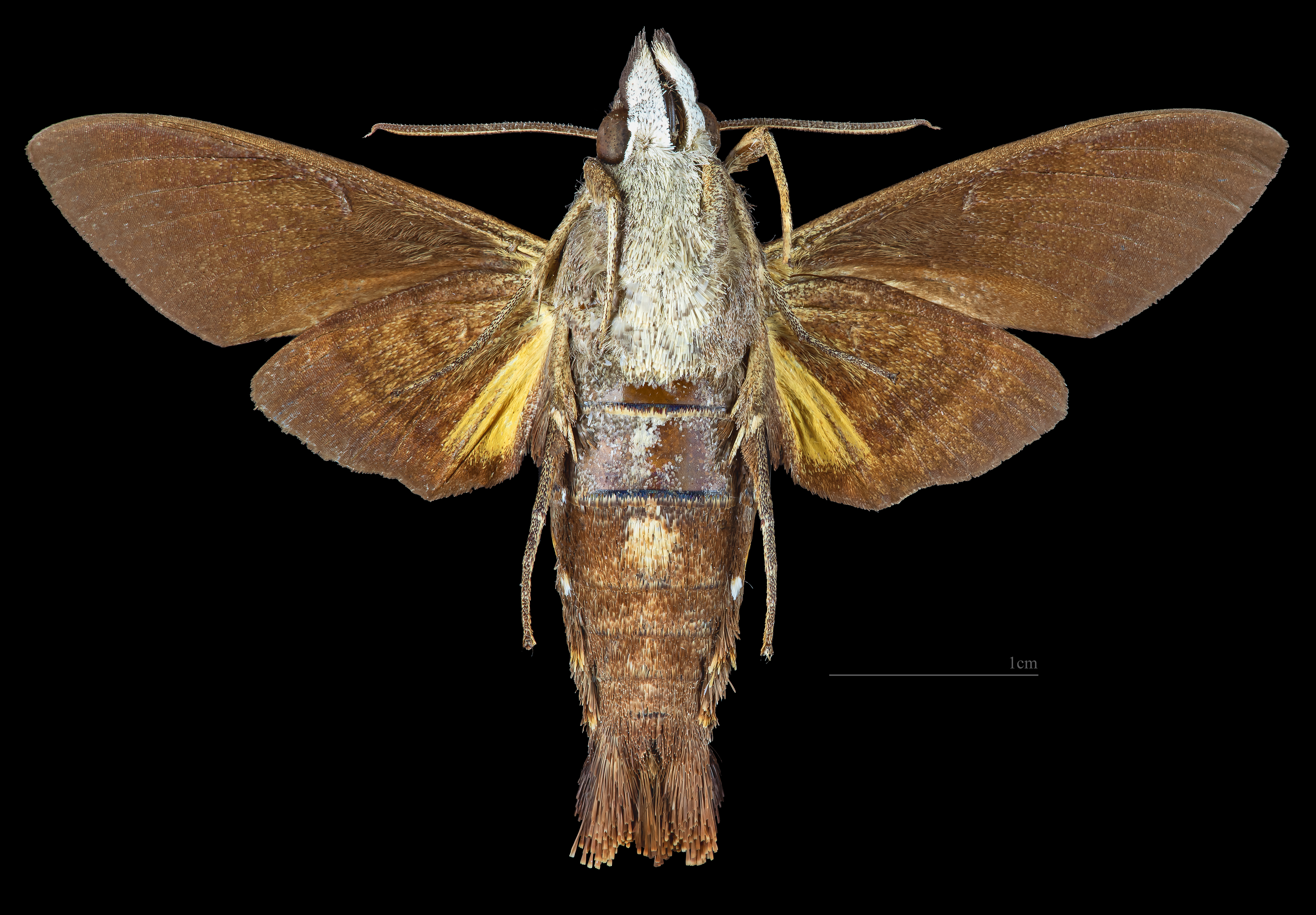 Macroglossum sylvia - △ Ventral side Collection of the Mathematician Laurent Schwartz